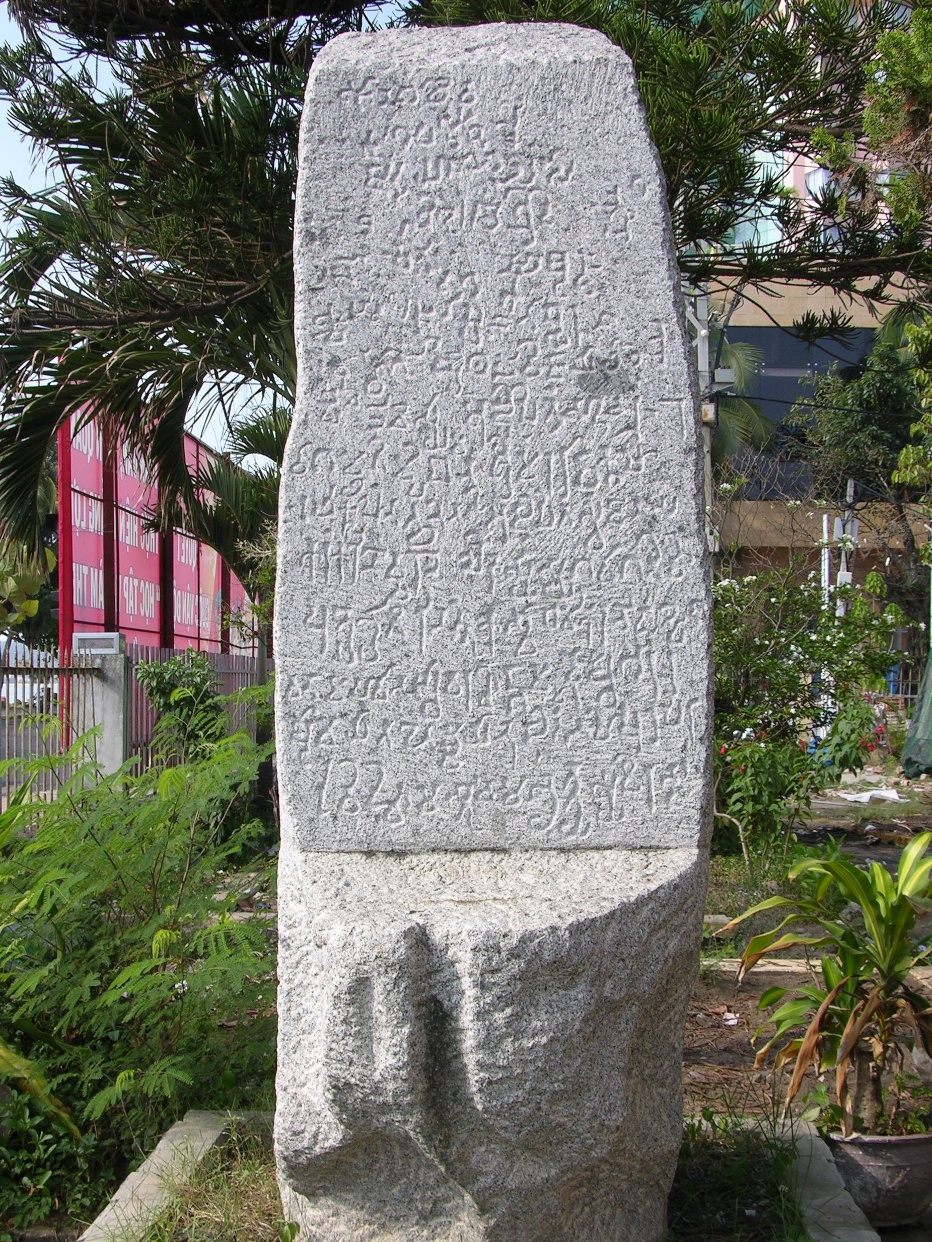 Vo Canh stele, an old Cham Sankrit stele, at Vo Canh hamlet, Nha Trang, Khanh Hoa. This is the copy at Khanh Hoa Museum.